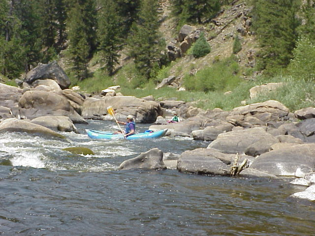 Canoers negotiate rapids on the North Platte River, in Northgate Canyon between the Routt Launch Site in Colorado and Six Mile Gap in Wyoming[1]